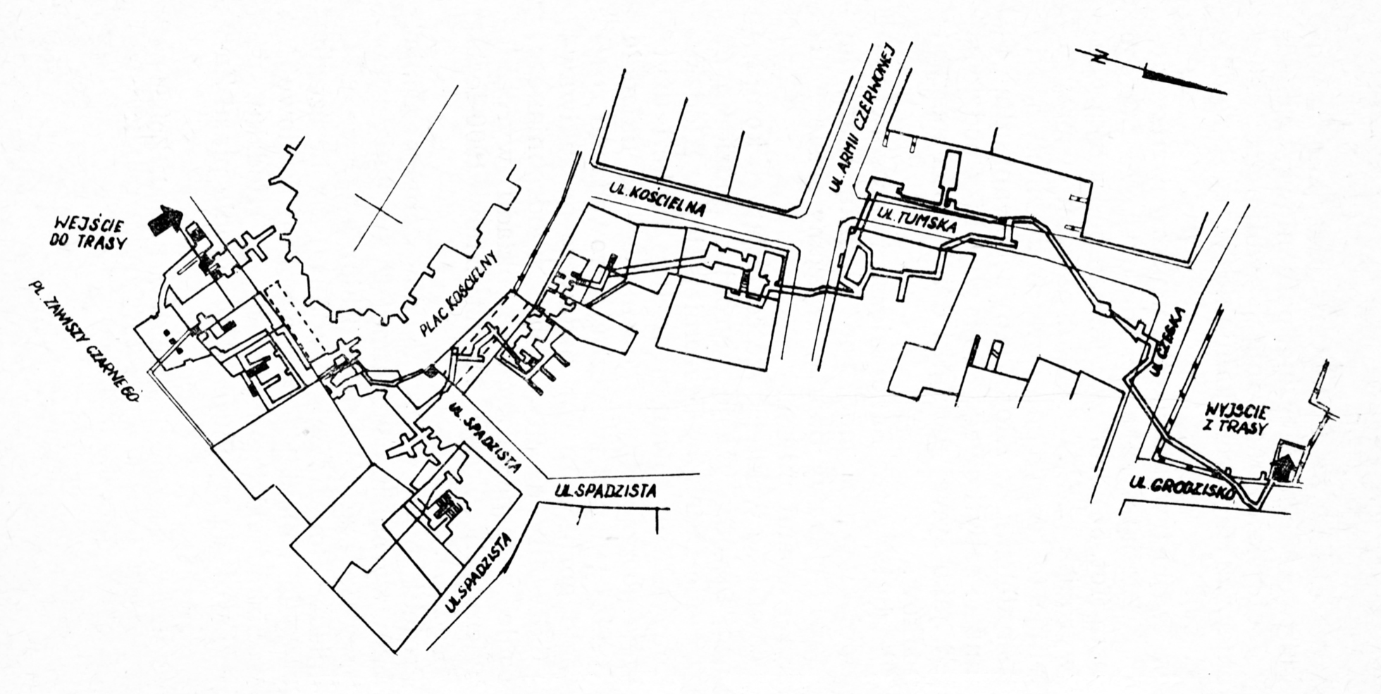 Plan of city tunnels tourist route in Kłodzko